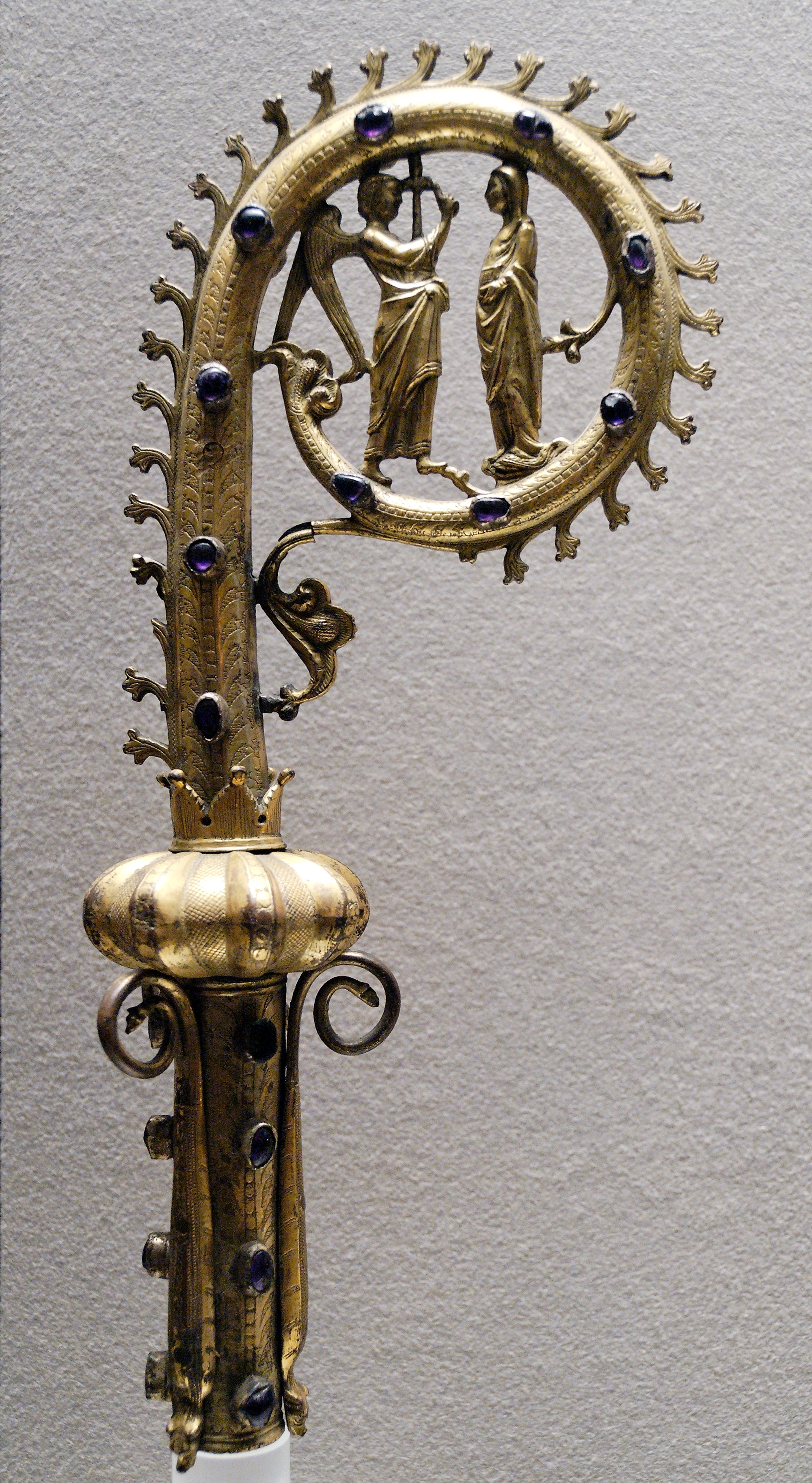 Crozier with representation of the Annunciation. Gilt copper and glass cabochons, made in Limoges, middle 13th century. Found in 1819 at Saint-Augustin-lès-Limoges (?), France.